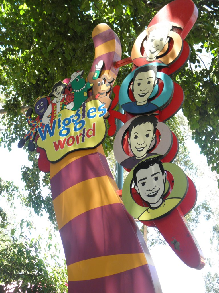 The side entrance of Wiggles World at Dreamworld (after tunnel from Tiger Island/Tower of Terror).